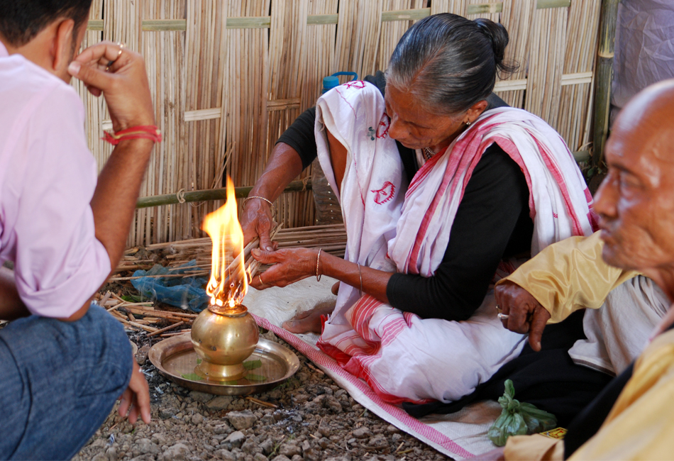 Prediction (Black Magic).